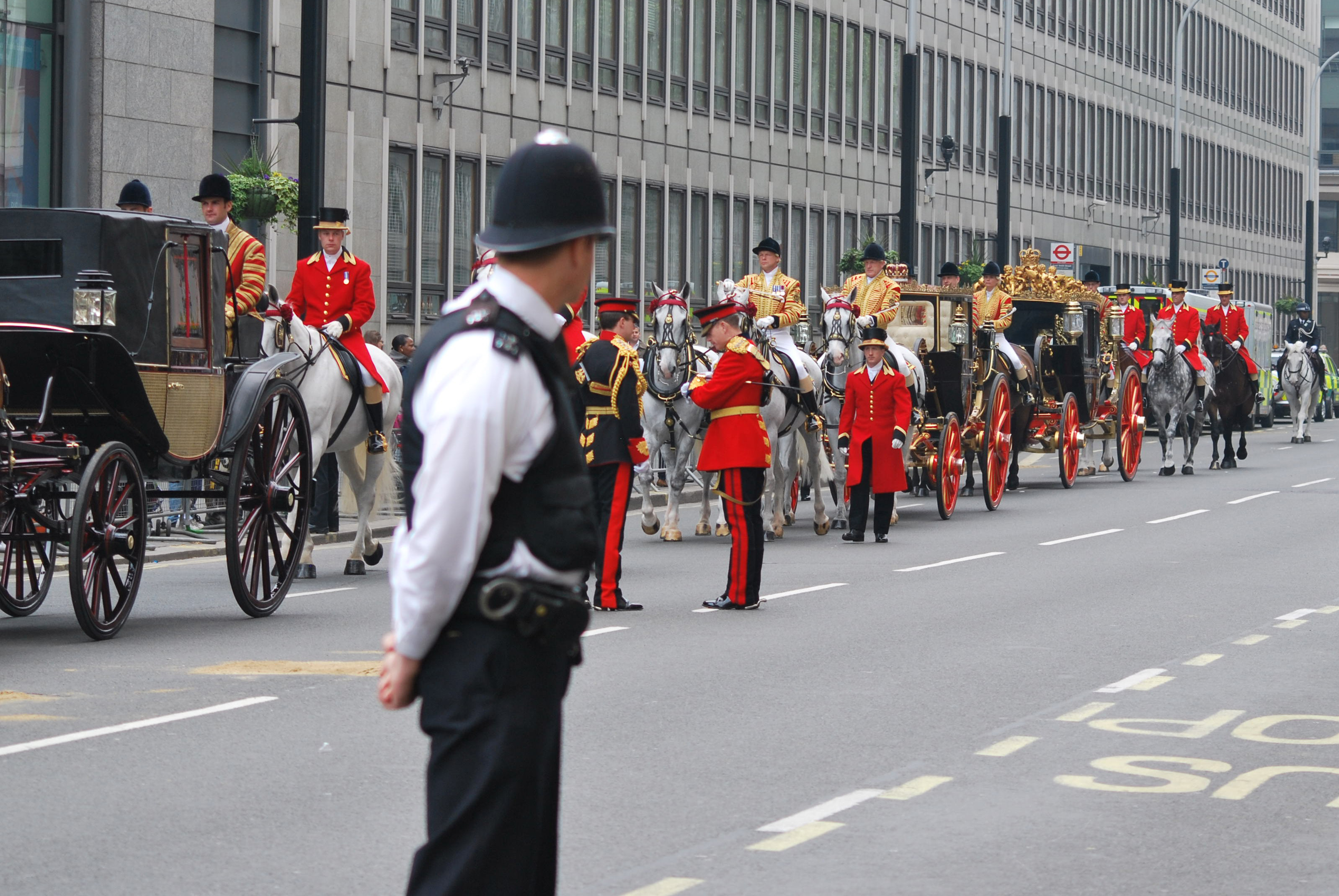 Wedding of Prince William of Wales and Kate Middleton